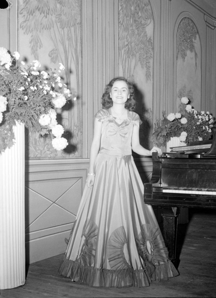 We see Claire Gagnier, in a long dress, standing next to a grand piano.